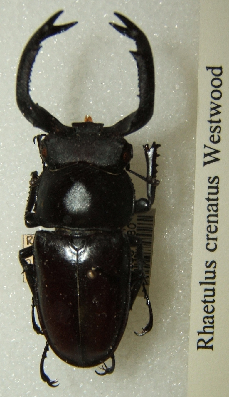 Rhaetulus crenatus adult taken by Shawn Hanrahan at the Texas A&M University Insect Collection in College Station, Texas.